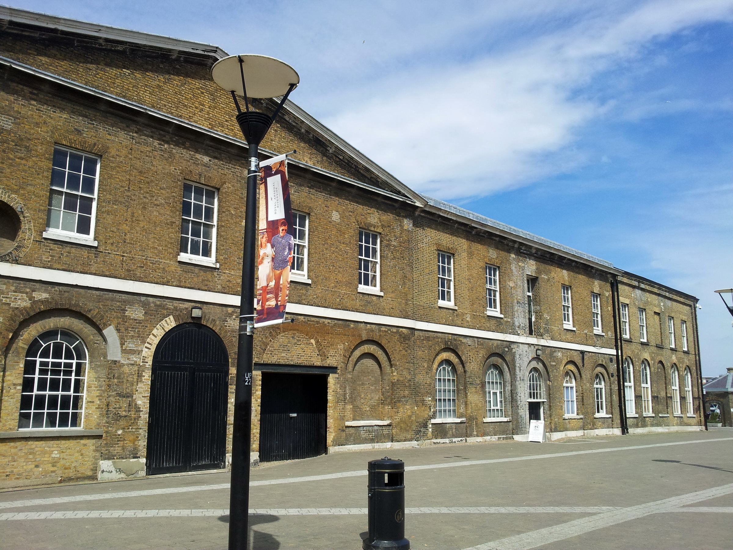 View from No 1 Street of Greenwich Heritage Centre in Royal Arsenal Riverside, Woolwich, South East London.